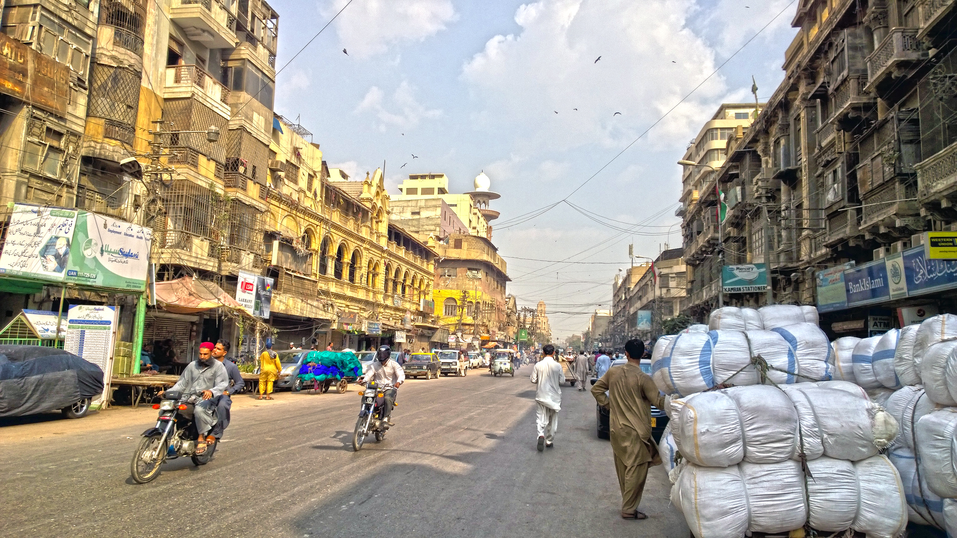 M A Jinnah Road, a famous street in Karachi